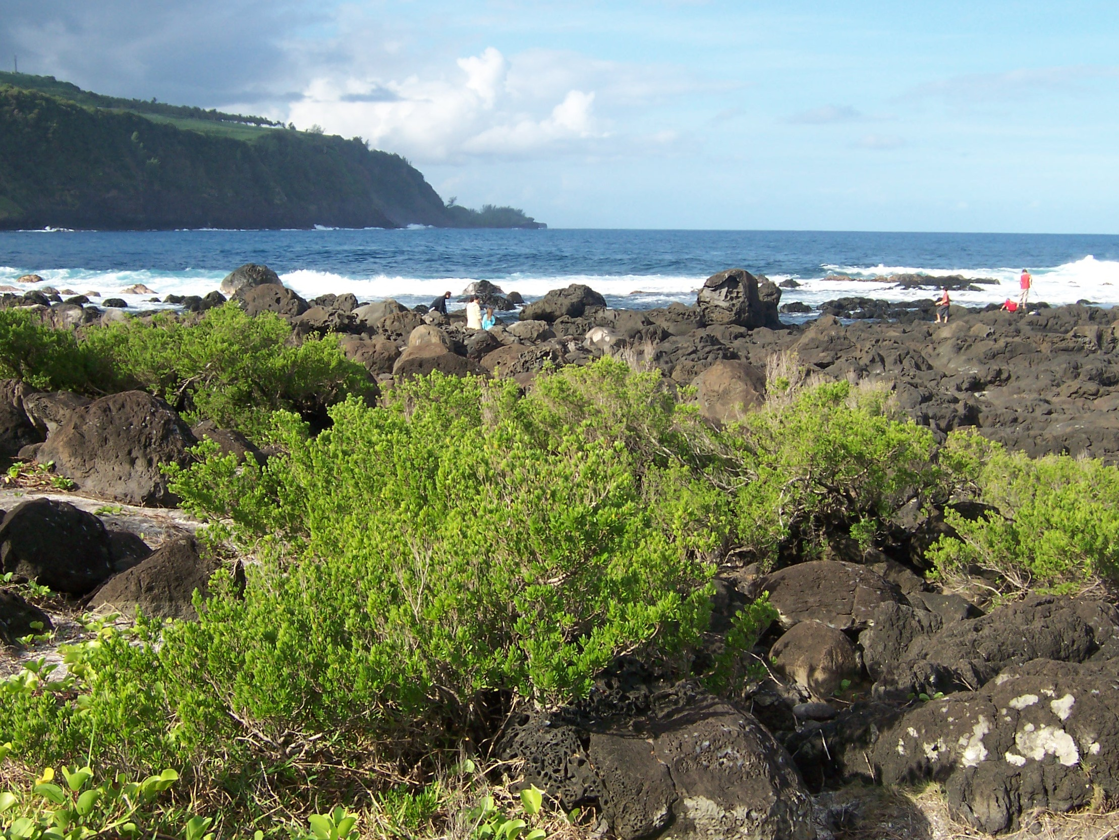 shrubs of Pemphis acidula (Lythraceae) on the shore of Réunion island (at Vincendo, commune of Saint-Joseph)